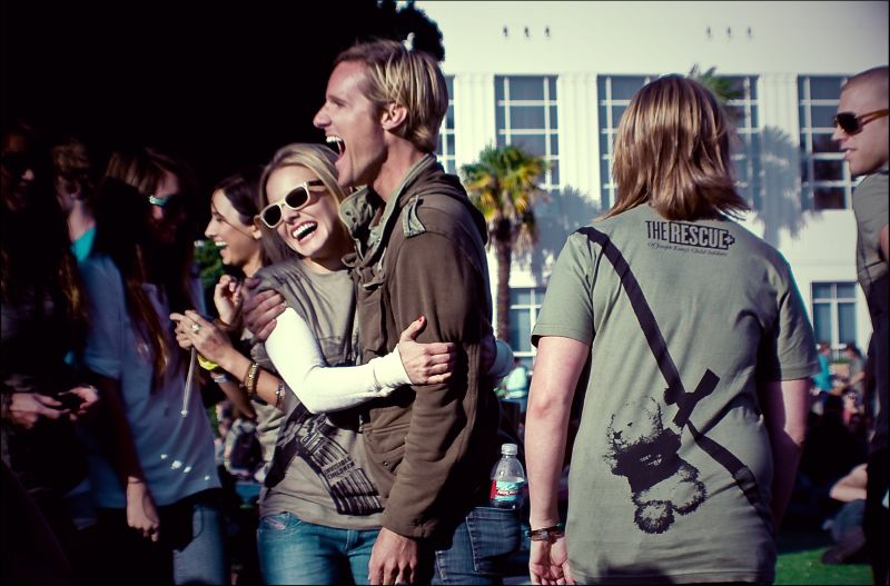 a cute moment with filmer (and founder of 'Invisible Children') Jason Russell and Kristen Bell (from 'Forgetting Sarah Marshall'). This was at 'The Rescue' event i keep talking about :] she came to speak and he was there watching over everything, the whole day was really great!